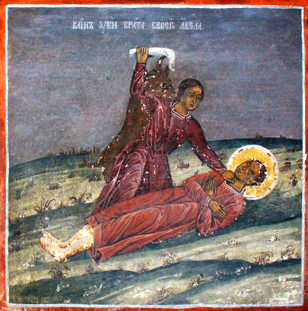 Cain kills his brother Abel - an old fresco from Raduil churh